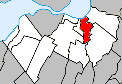 Location of Candiac, Quebec within Roussillon Regional County Municipality.